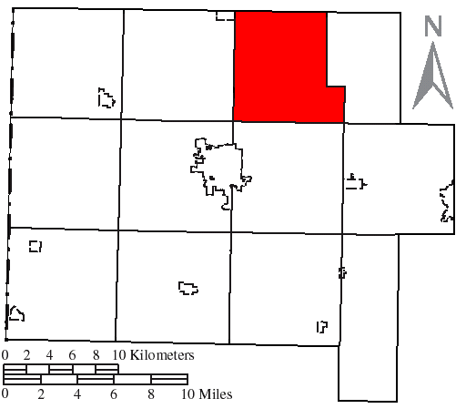 Made by the US Census and modified by myself